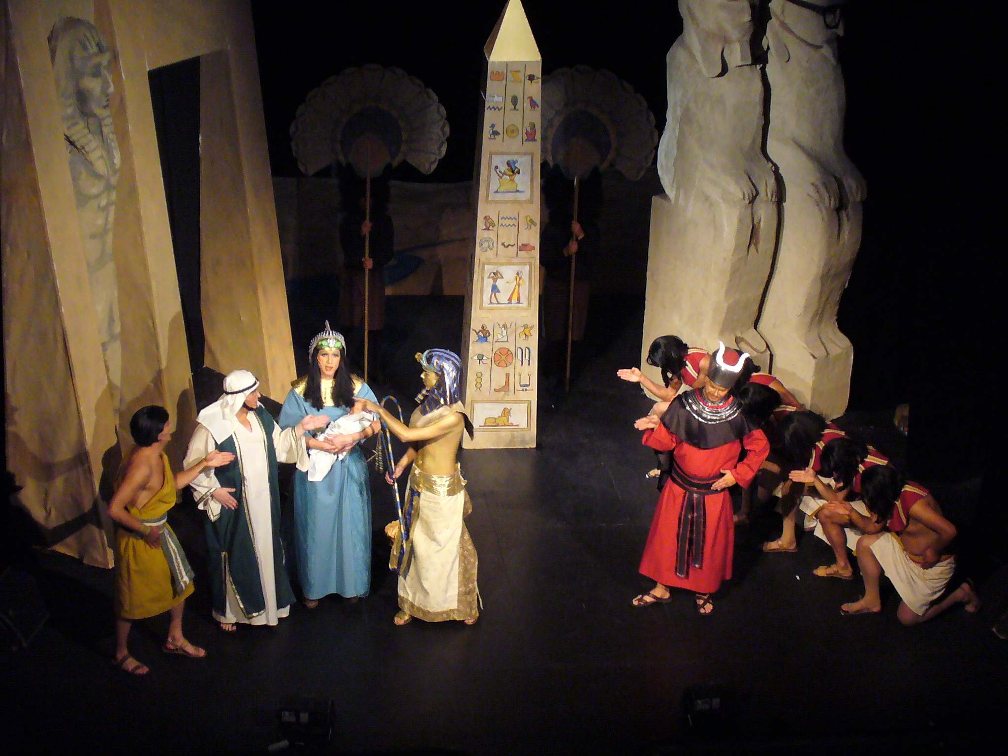 "Uarda" performed by Lundaspexarna at Södra teatern in Stockholm, Sweden